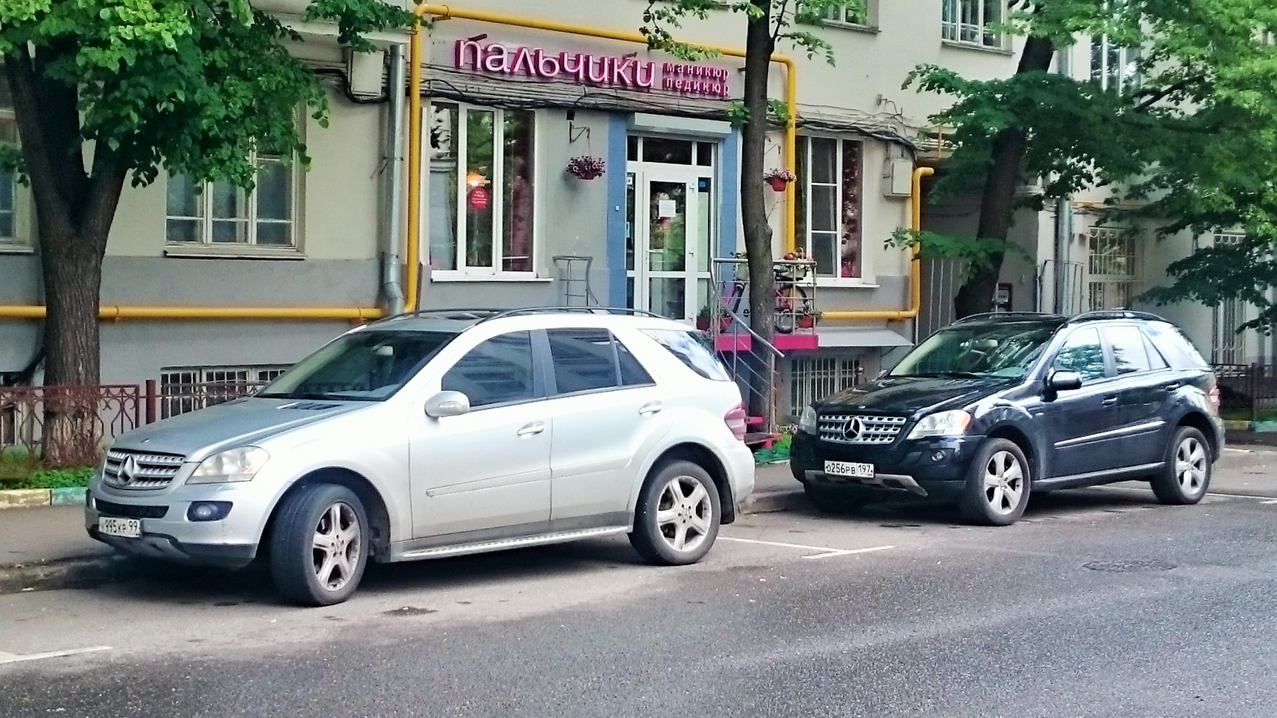 W164 pre and post facelift